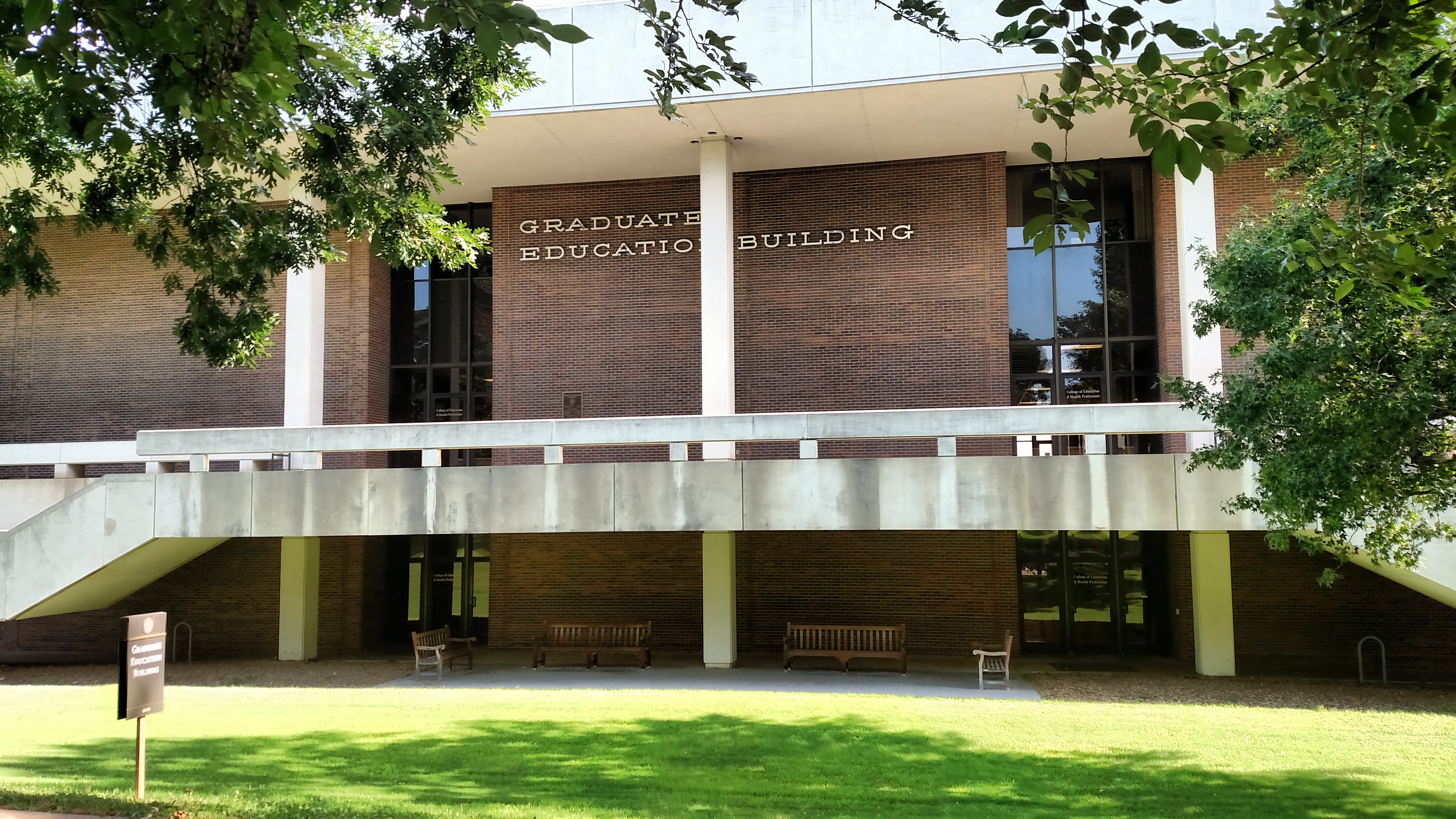 Front of building